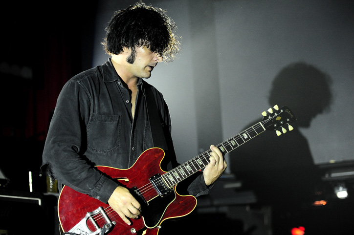 Splendour In The Grass Sideshow